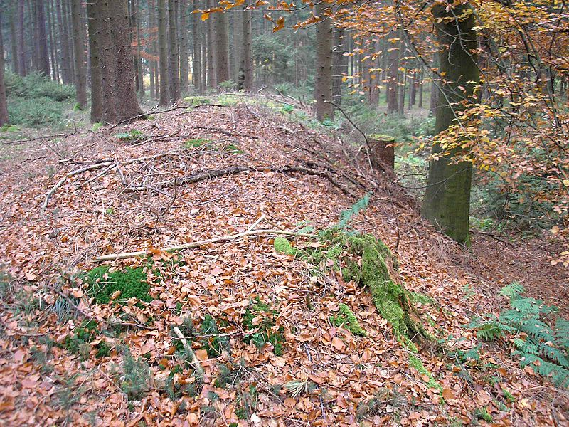 Early Middle Ages hill fort "Schwedenschanze" near Nisselsbach (Aichach, Landkreis Aichach-Friedberg, Bavaria, Germany). The earthworks of the bailey, looking west.